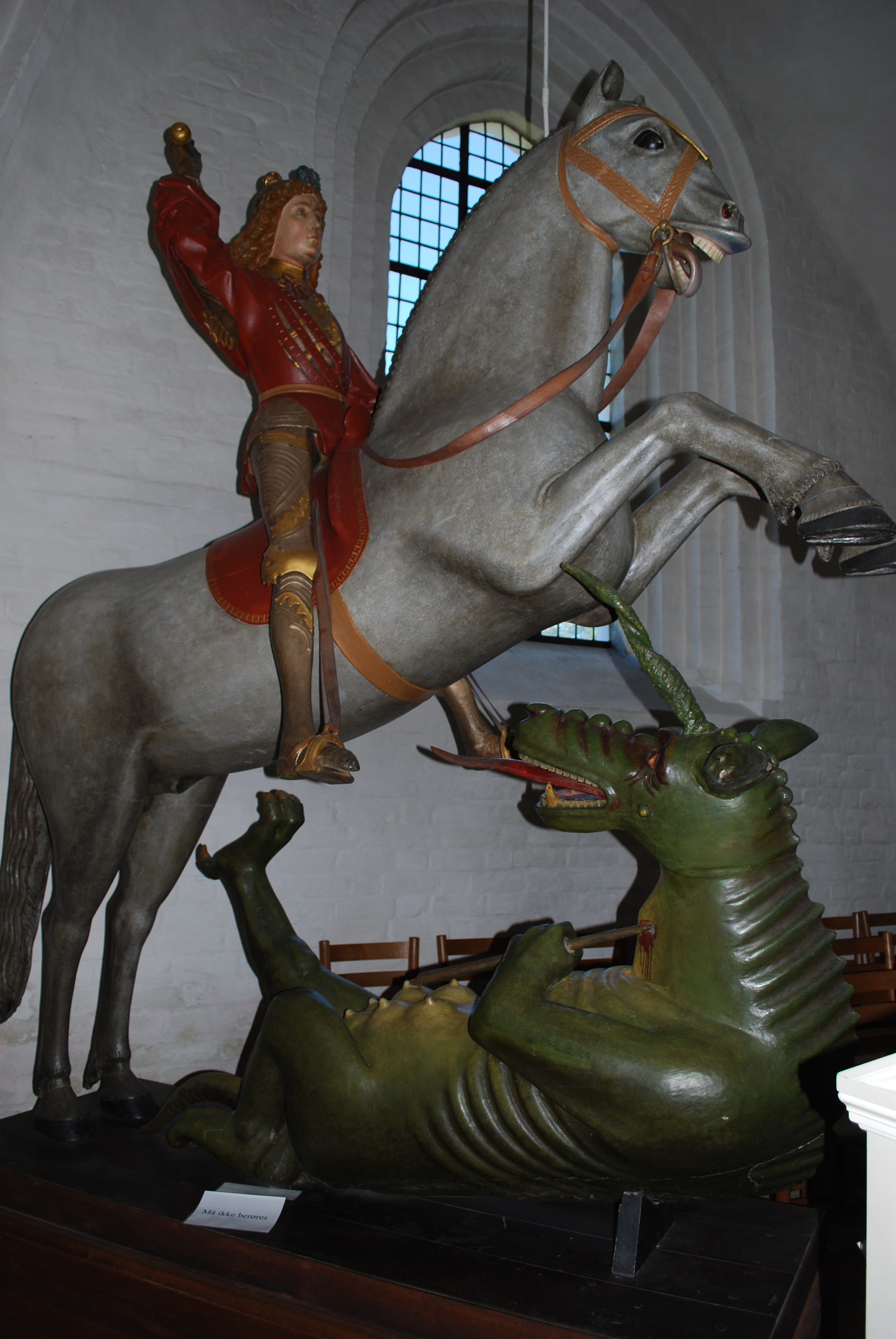 the St. George group - Broager Church, Jylland, Denmark